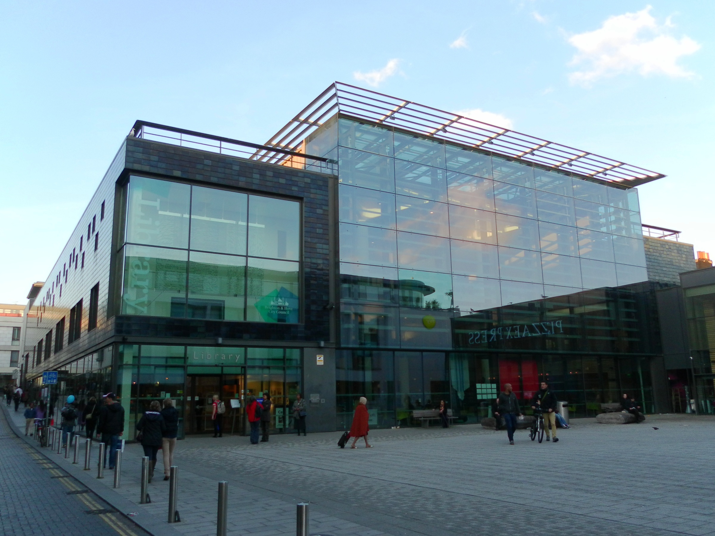 Jubilee Library and Jubilee Square, Jubilee Street, Brighton, City of Brighton and Hove, England. Opened on 3 March 2005.